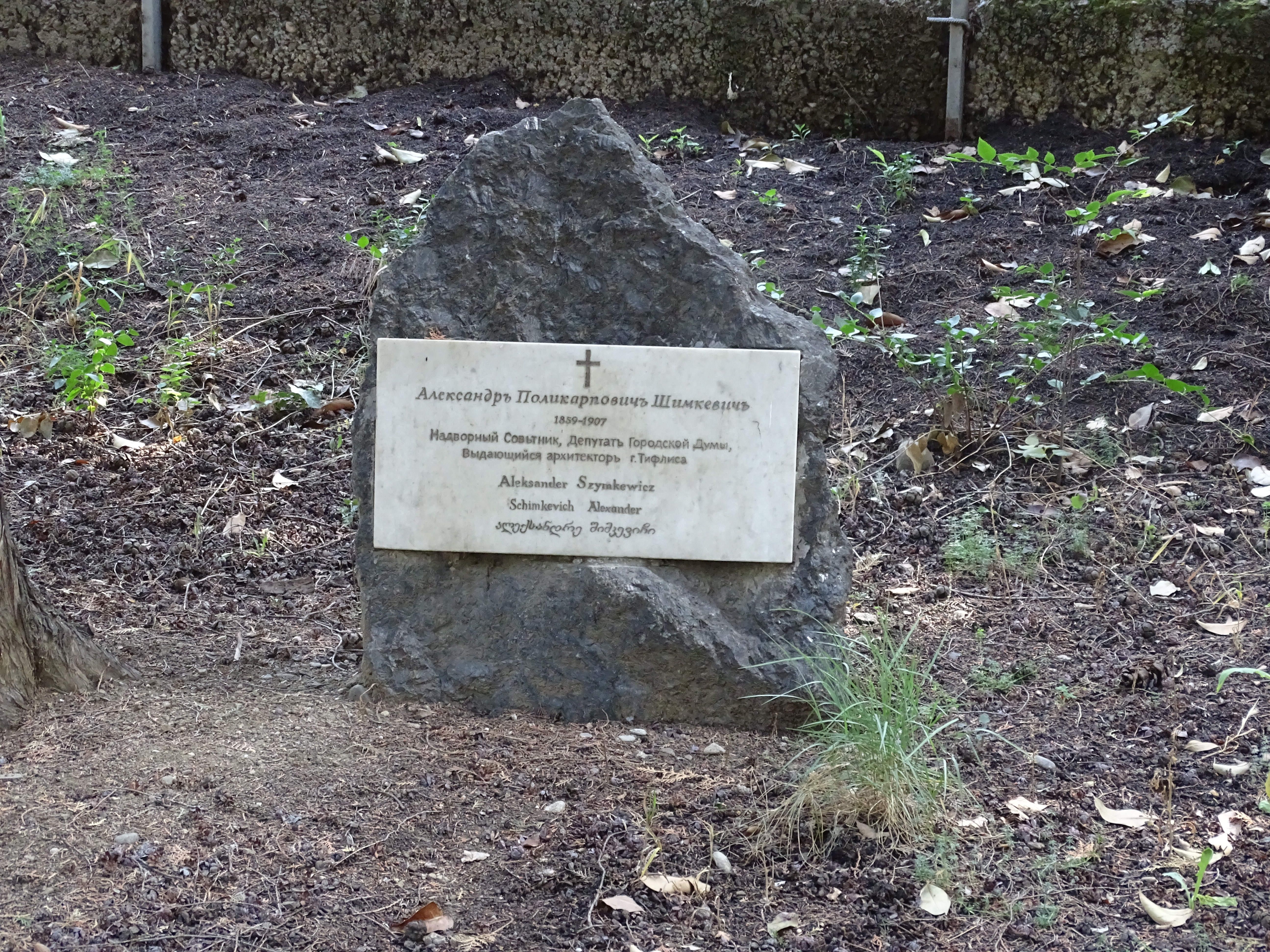 Gravestone of Aleksander Szymkiewicz located near the lutheran Versöhnungskirche in Tbilisi